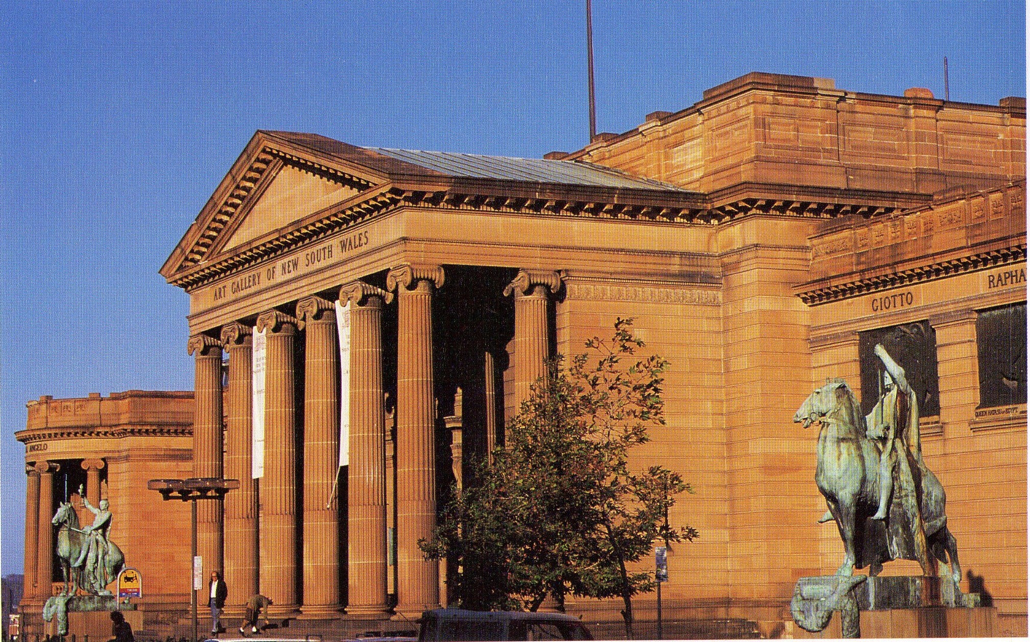 photo of the New South Wales Art Gallery